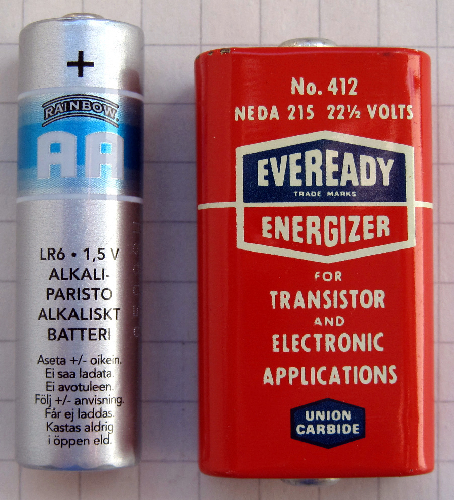 A 22.5 volt NEDA 215 (Energizer/Eveready 412) battery. Containing 15 1.5V cells in series.Not obsolete but uncommon nowadays. Sometimes used for camera flash and transistor use. Product datasheet